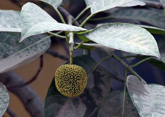 Kadamb Neolamarckia cadamba in Kolkata, West Bengal, India.